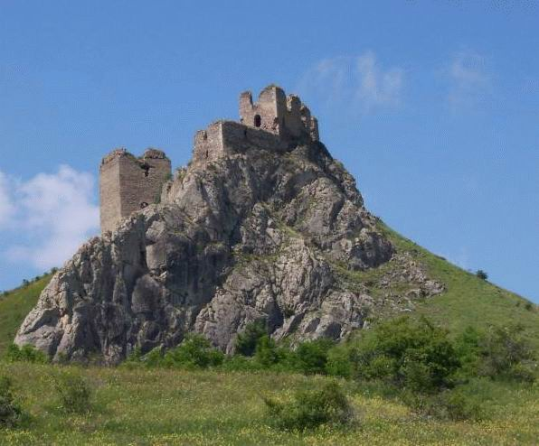 Castle of Colteşti, Transylvania.